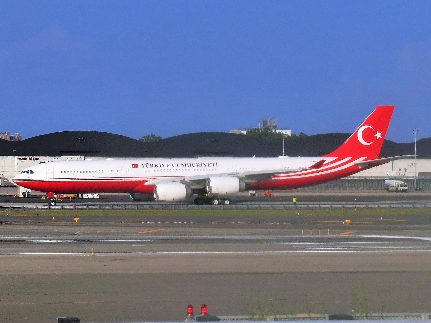 The Turkish Government Airbus A340-500 HGW TC-CAN has finished unloading its passengers and cargo for the 2017 United Nations meetings and is taxiing to depart Runway 13L, visible in the foreground.